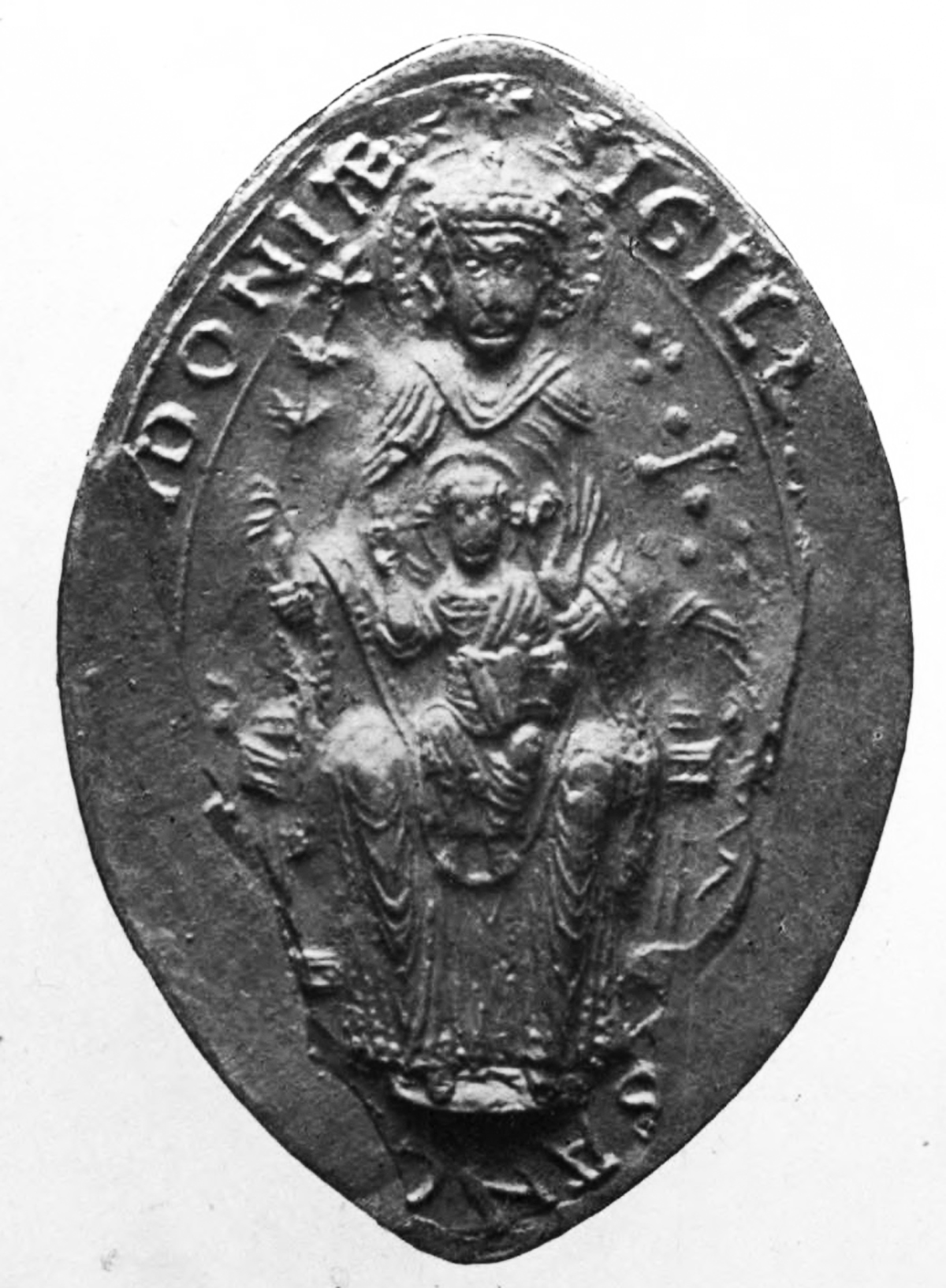 Seal of Abingdon Abbey. The Victoria History of Berkshire (p. 62) comments: "The pointed oval seal of the eleventh century bears the seated crowned Virgin, with sceptre in right hand and ring in the left, with the Holy Child on her knees. Legend: – + SIGILL . . . SANC . . . DONIÆ. There are casts of seals of Abbot Robert, 1231, and Abbot William, 1371, in the British Museum."